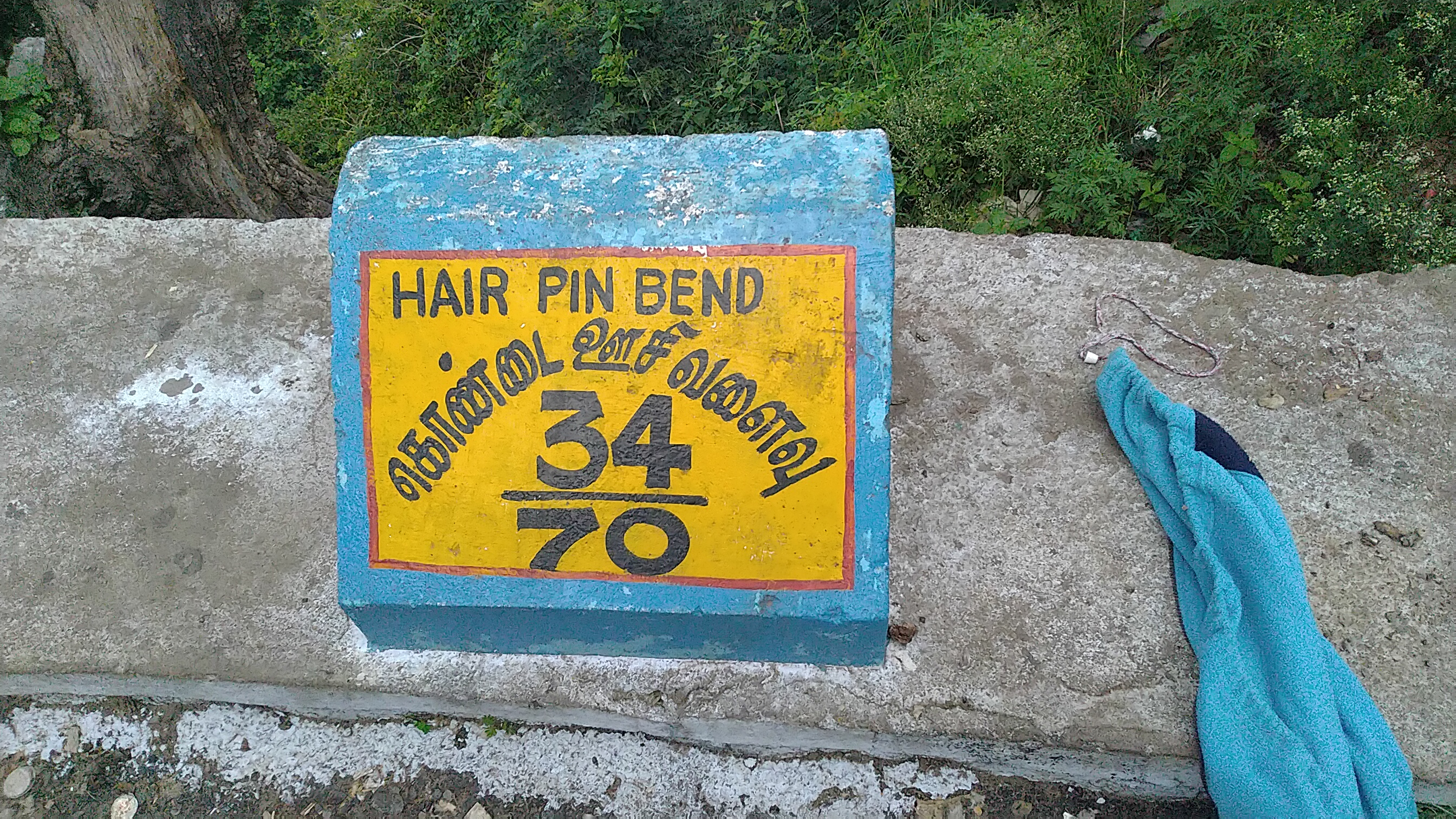 A stone marking the 34th of the 70 hairpin bends on the Karavalli- Kolli Hills road